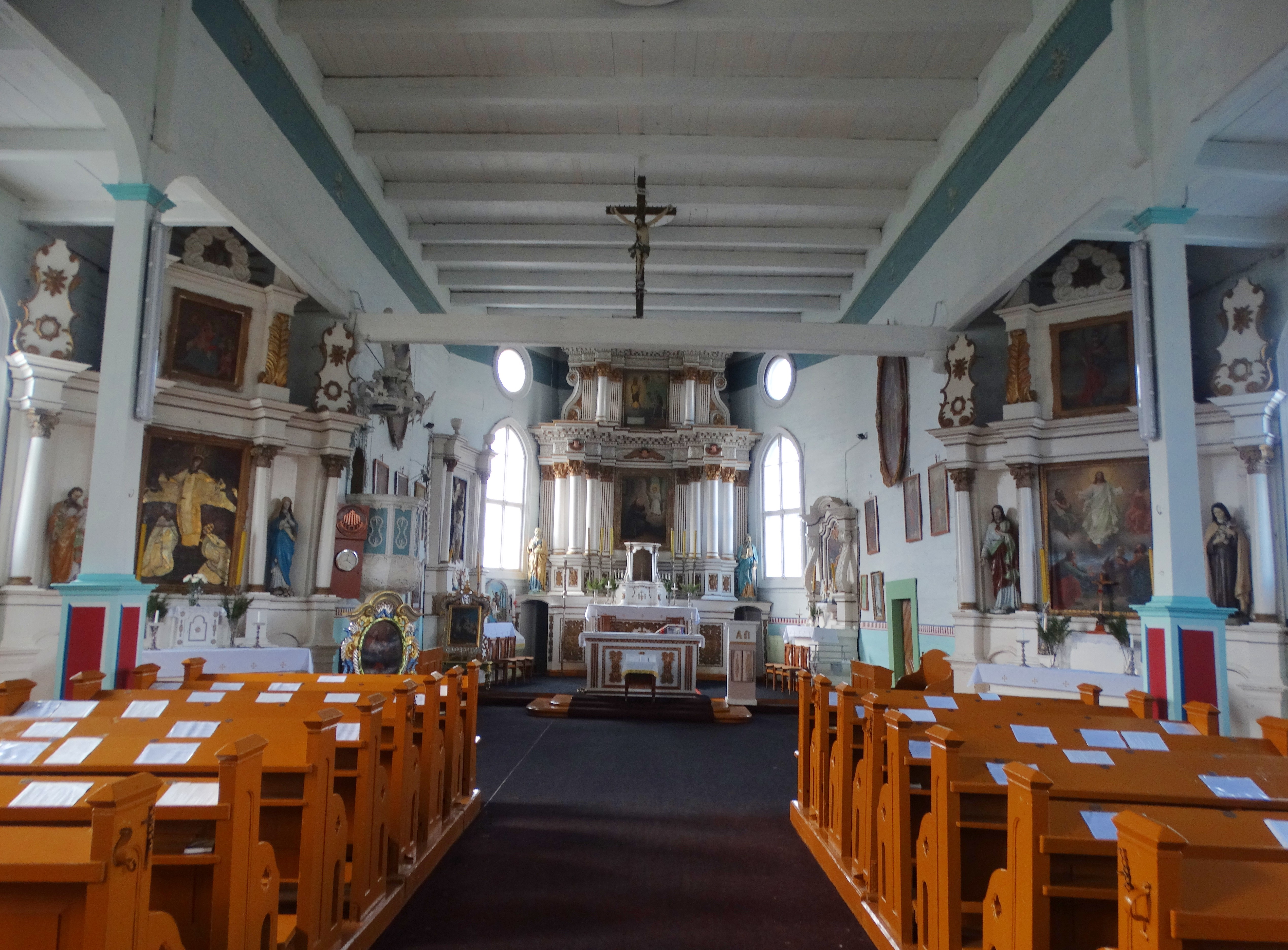 Catholic church, Judrėnai, Klaipėda District. Lithuania